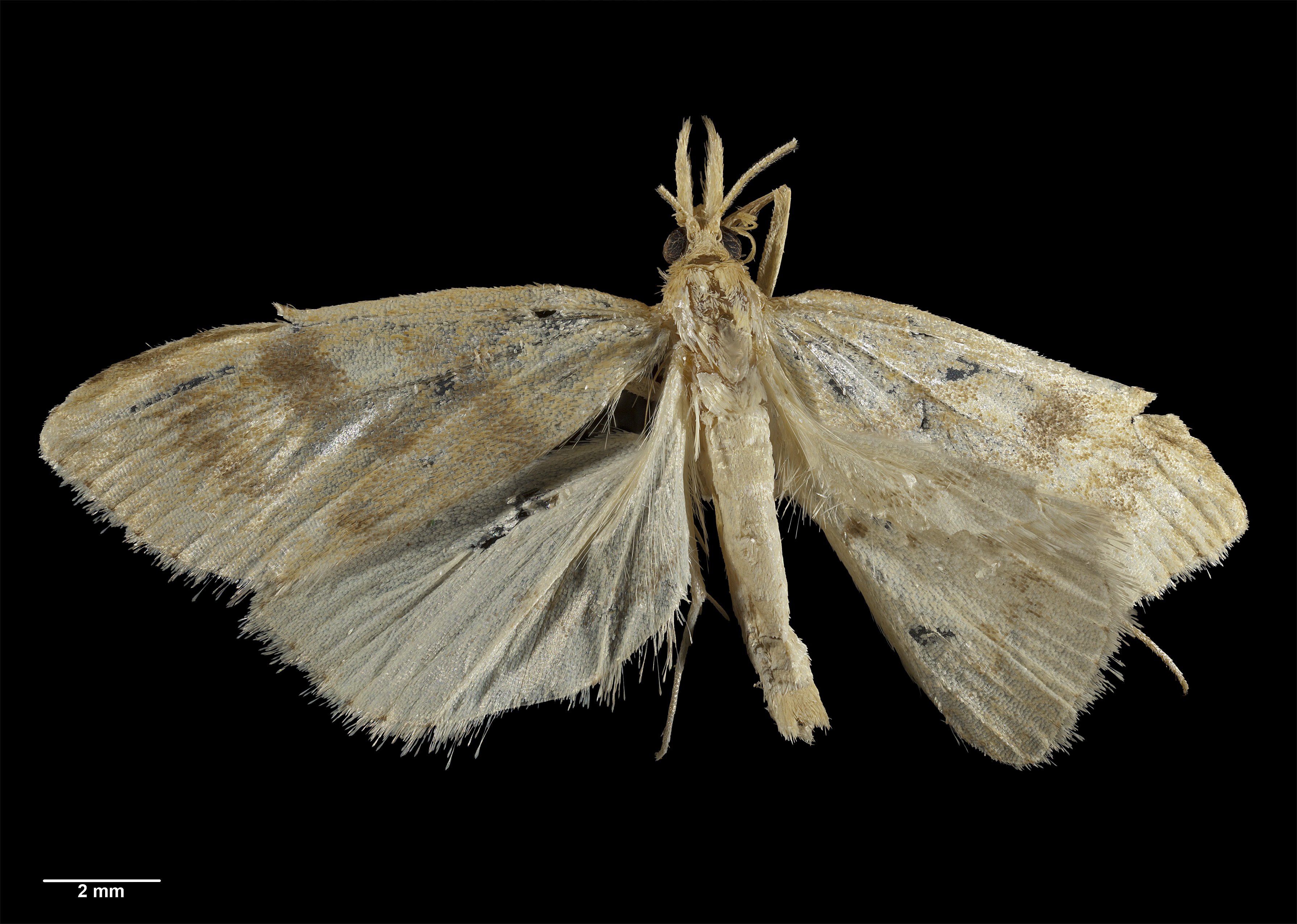 Male holotype specimen of Udea antipodea AMNZ21779 held at the Auckland War Memorial Museum.